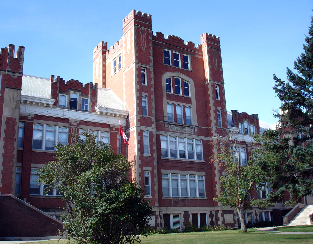 King George School, a public elementary school in the King George neighbourhood of Saskatoon, Saskatchewan, Canada.